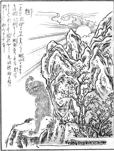 Hiderigami (魃, the god of drought) from the Konjaku Gazu Zoku Hyakki (今昔画図続百鬼)